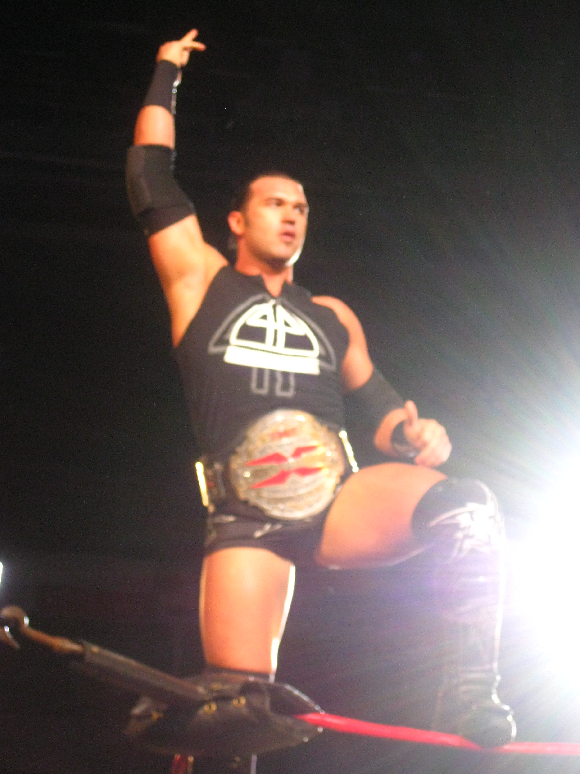 A TNA Live! Even at the ShoWare Center in Kent, WA. No PRO cameras were allowed so I had to put my Canon PowerShot SD1100 IS to work!